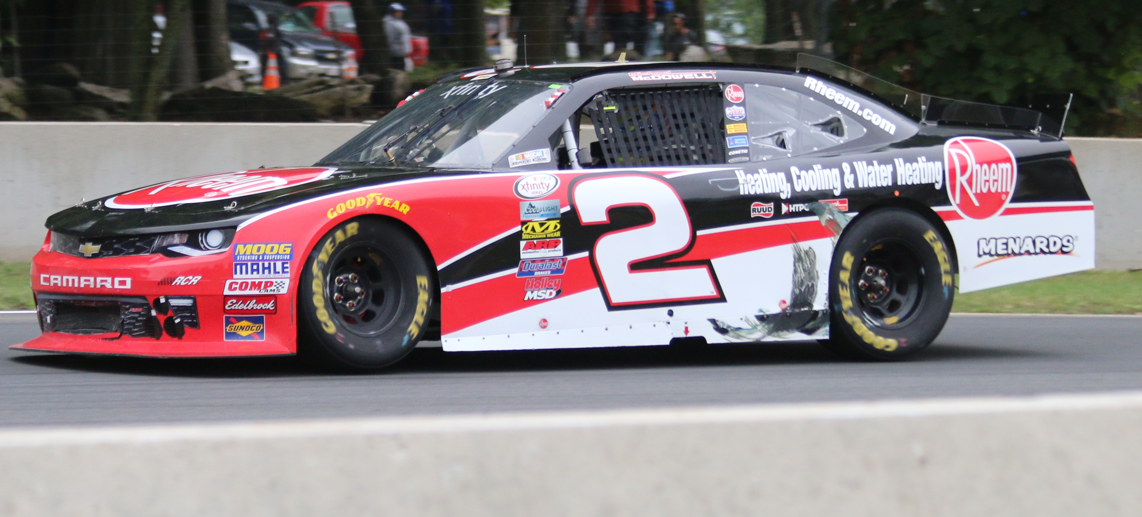 The Chevrolet Camaro of Michael McDowell at the NASCAR Xfinity Series Road America 180.